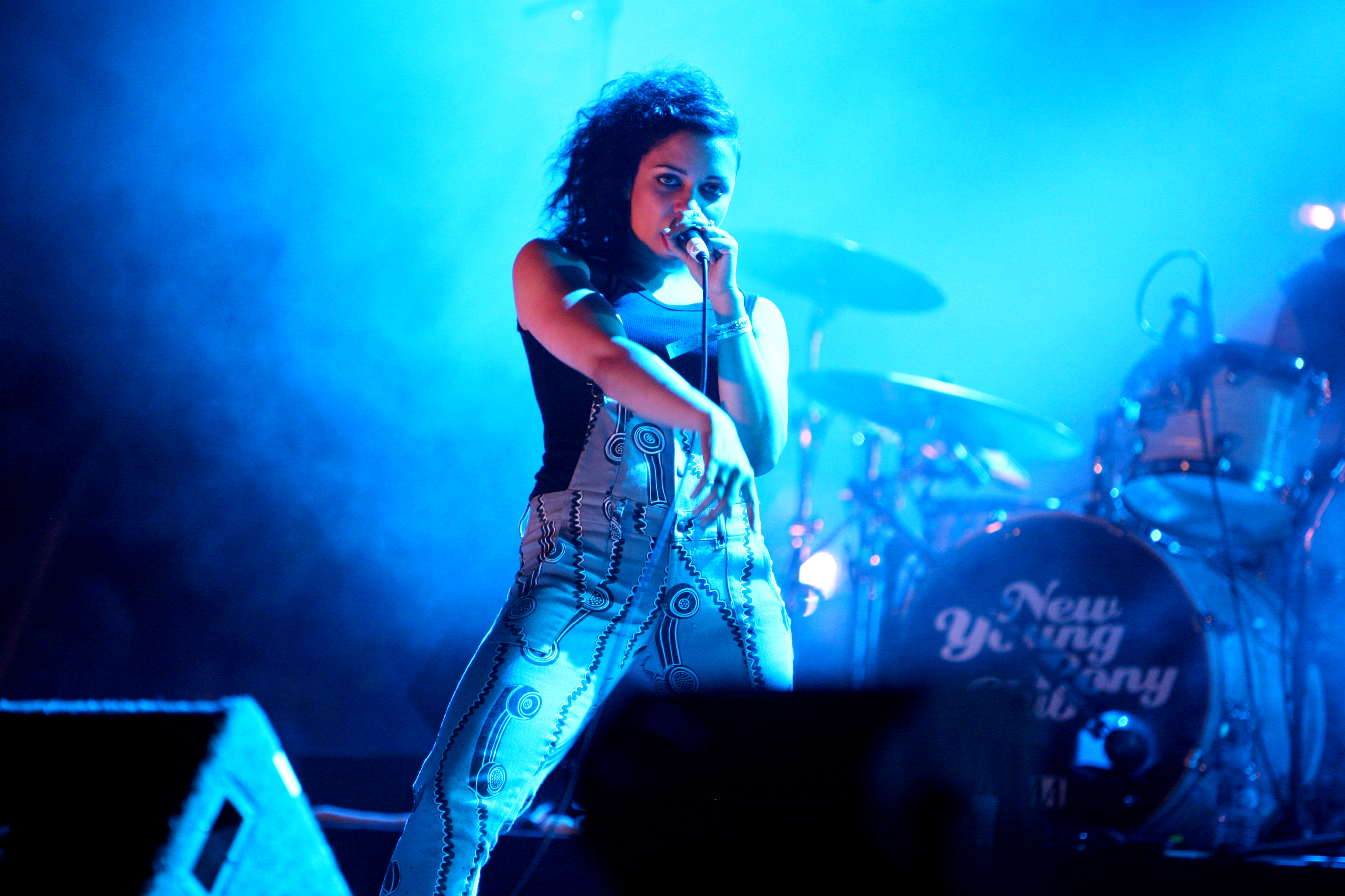 New Young Pony Club at Rock en Seine Route du Rock, August 2007